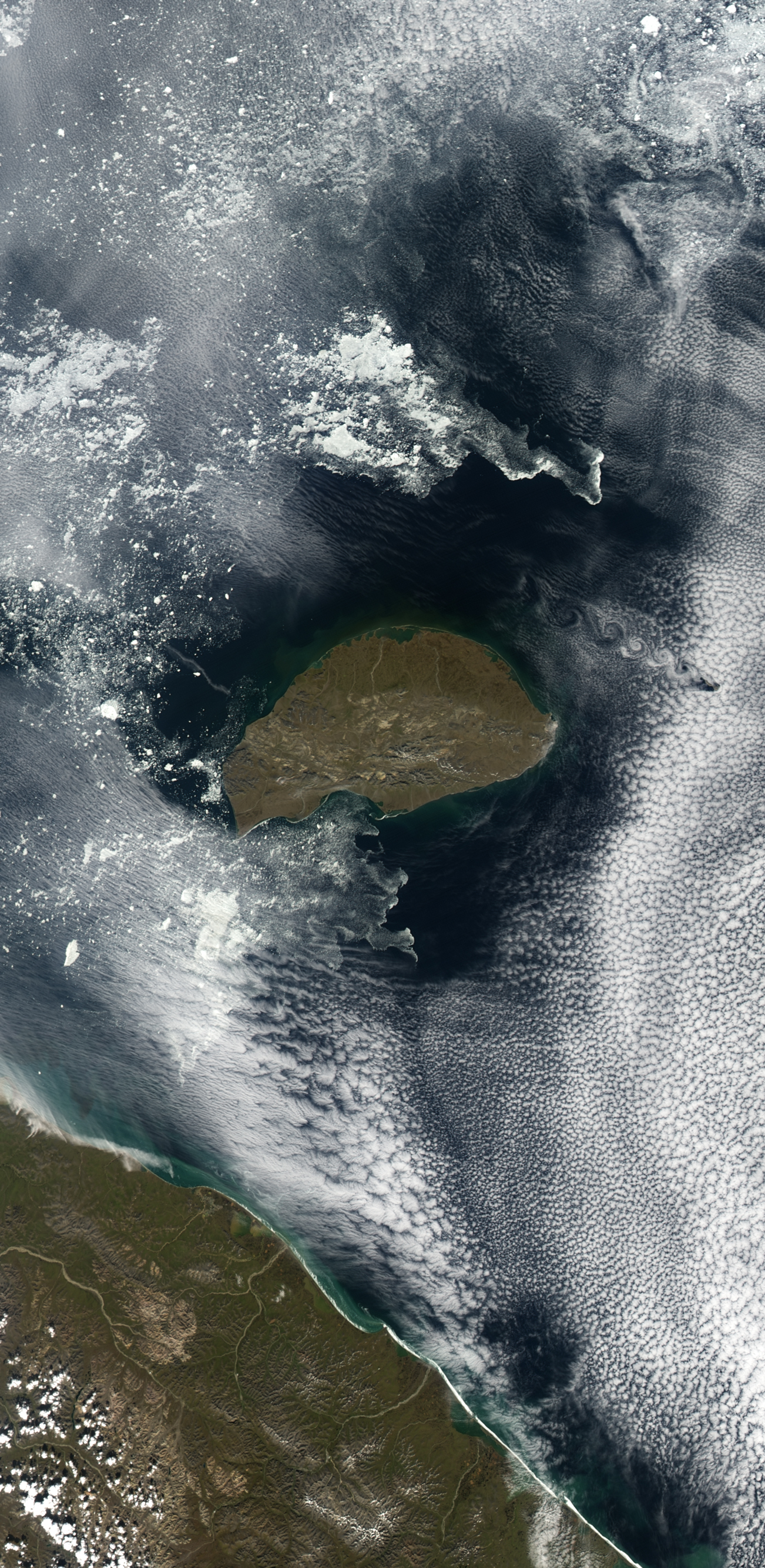 Part of the Russian Federation, Wrangel Island rests above the Arctic Circle between the Chukchi and East Siberian Seas, northeast of Siberia. Skies were clear over the island, giving the Moderate Resolution Imaging Spectroradiometer (MODIS) on NASA’s Aqua satellite a chance to capture this image.